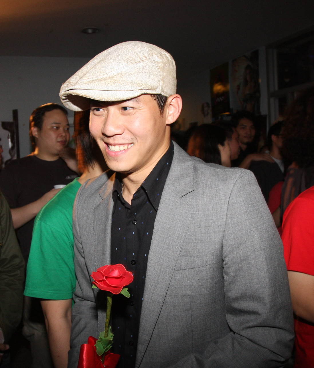 Andy from Dragon5 (Band from Thailand) แอนดี้ เขมพิมุก